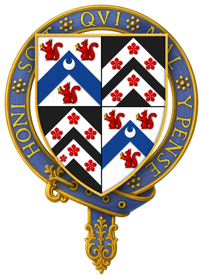 Coat of arms of Sir Thomas Lovell, KG See Sir Thomas' stall plate, still intact, within its original stall at St. George's Chapel - arms are quarterly: 1 and 4, argent a chevron azure between three squirrel sejant erect gules, the chevron charged with a crescent of the first for difference (for Lovell); 2 and 3, sable two chevrons argent, each charged with six cinquefoils gules (?).